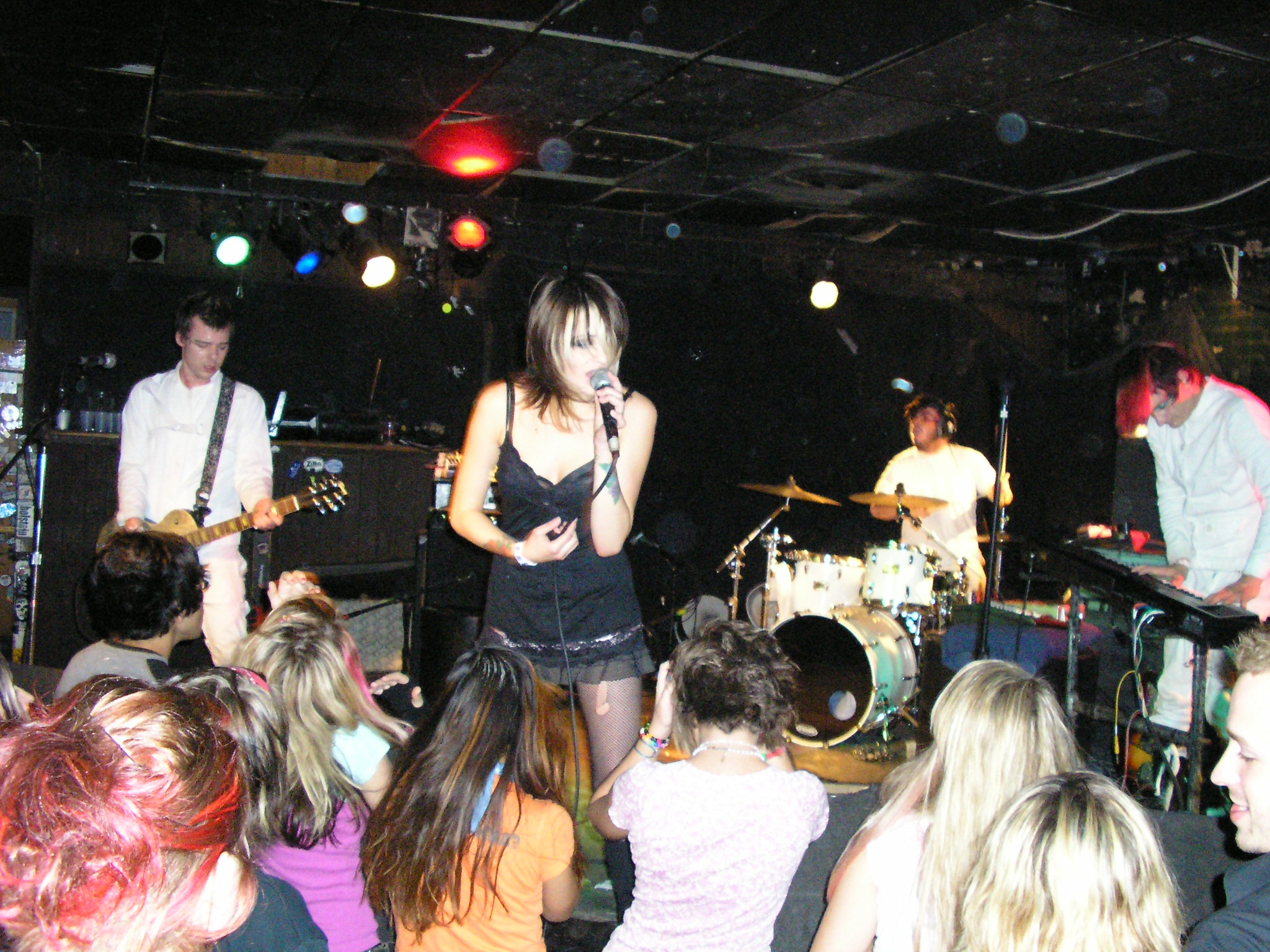 Shiny Toy Guns at the Bottleneck